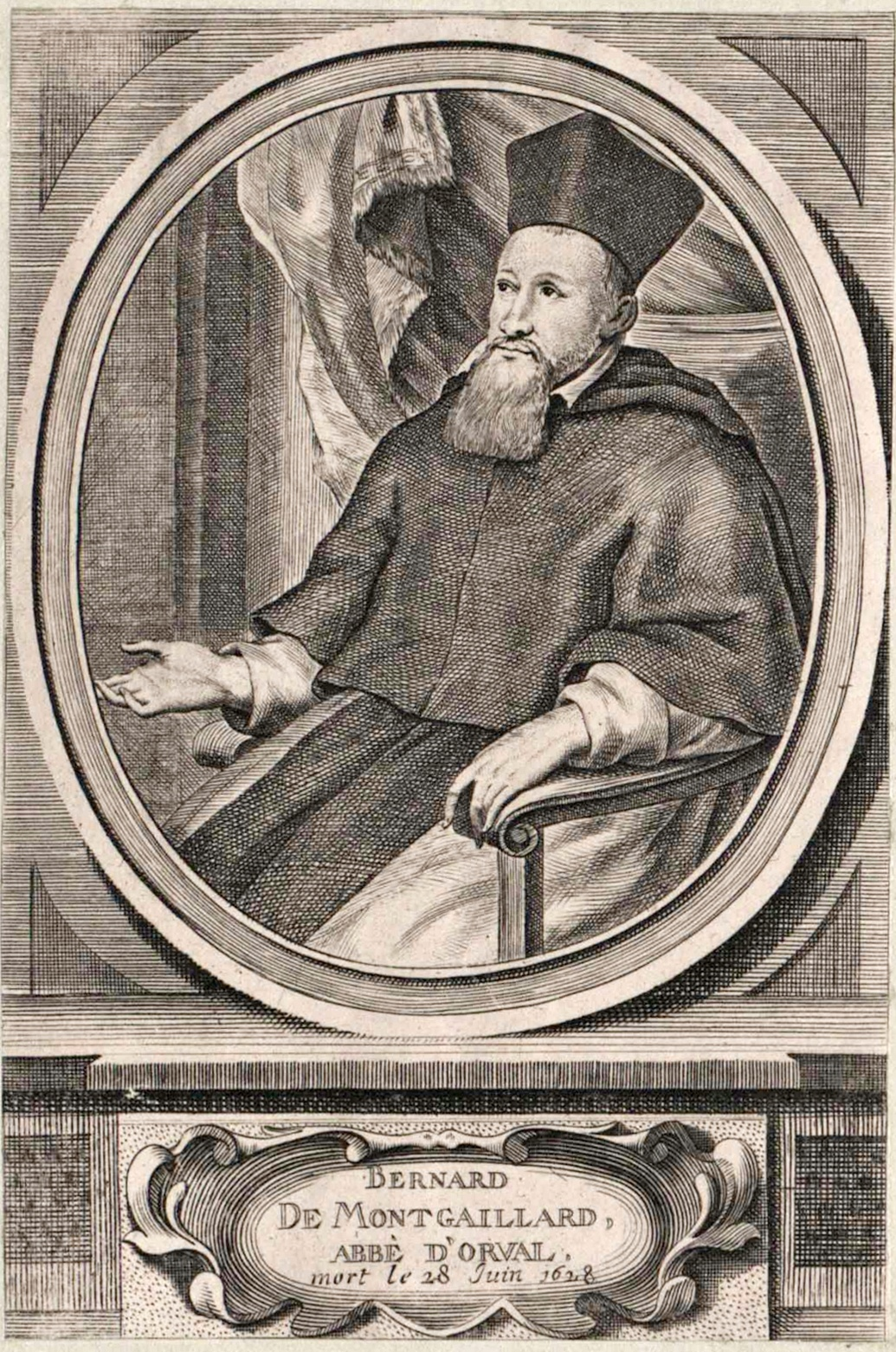 Bernard de Montgaillard (1563-1628), Zisterzienserabt von Orval in Belgien